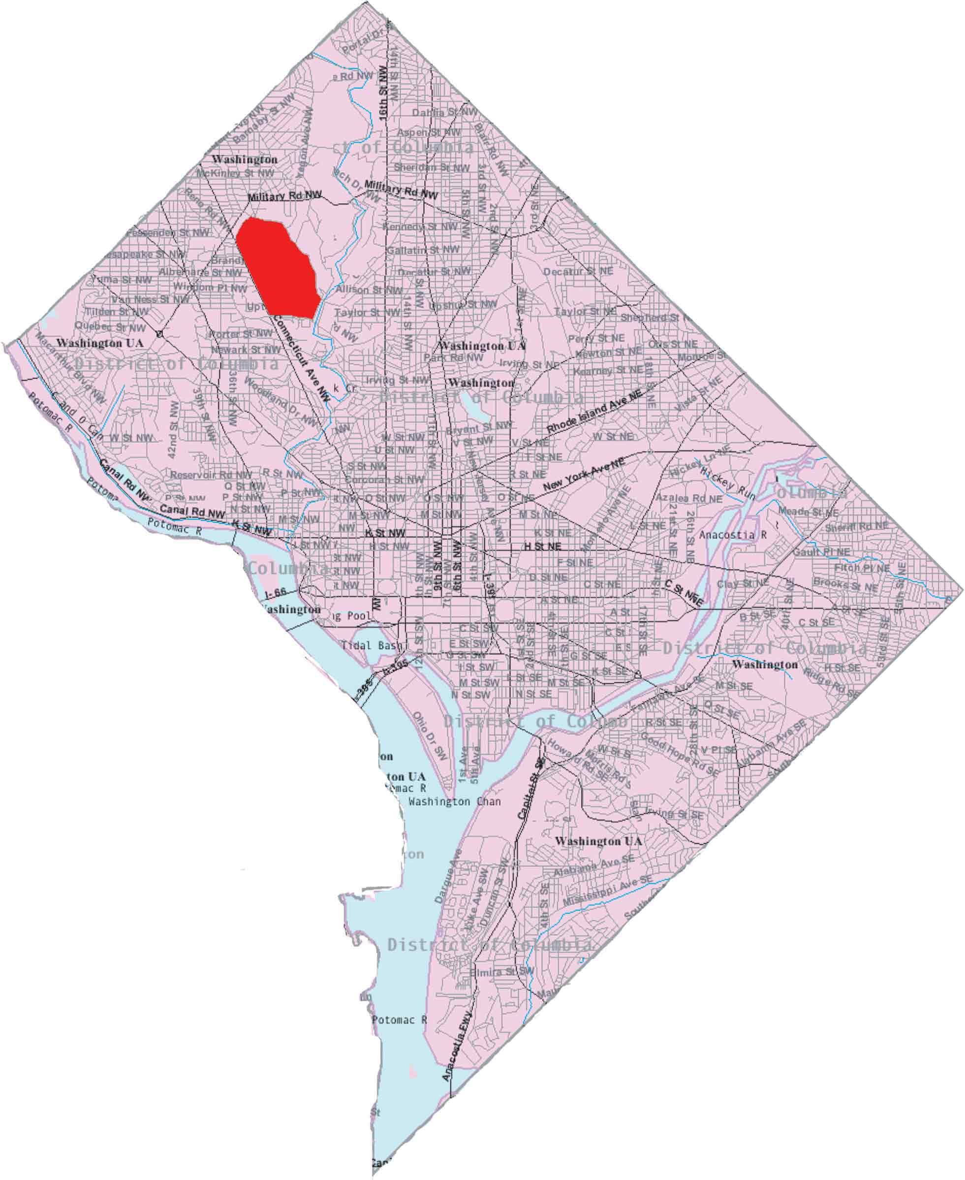 This image is a modified version of a self-generated reference map from the U.S. Census Bureau's American Factfinder at by Wikipedia user Msclguru.